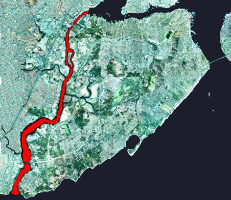 Arthur Kill, seen from space